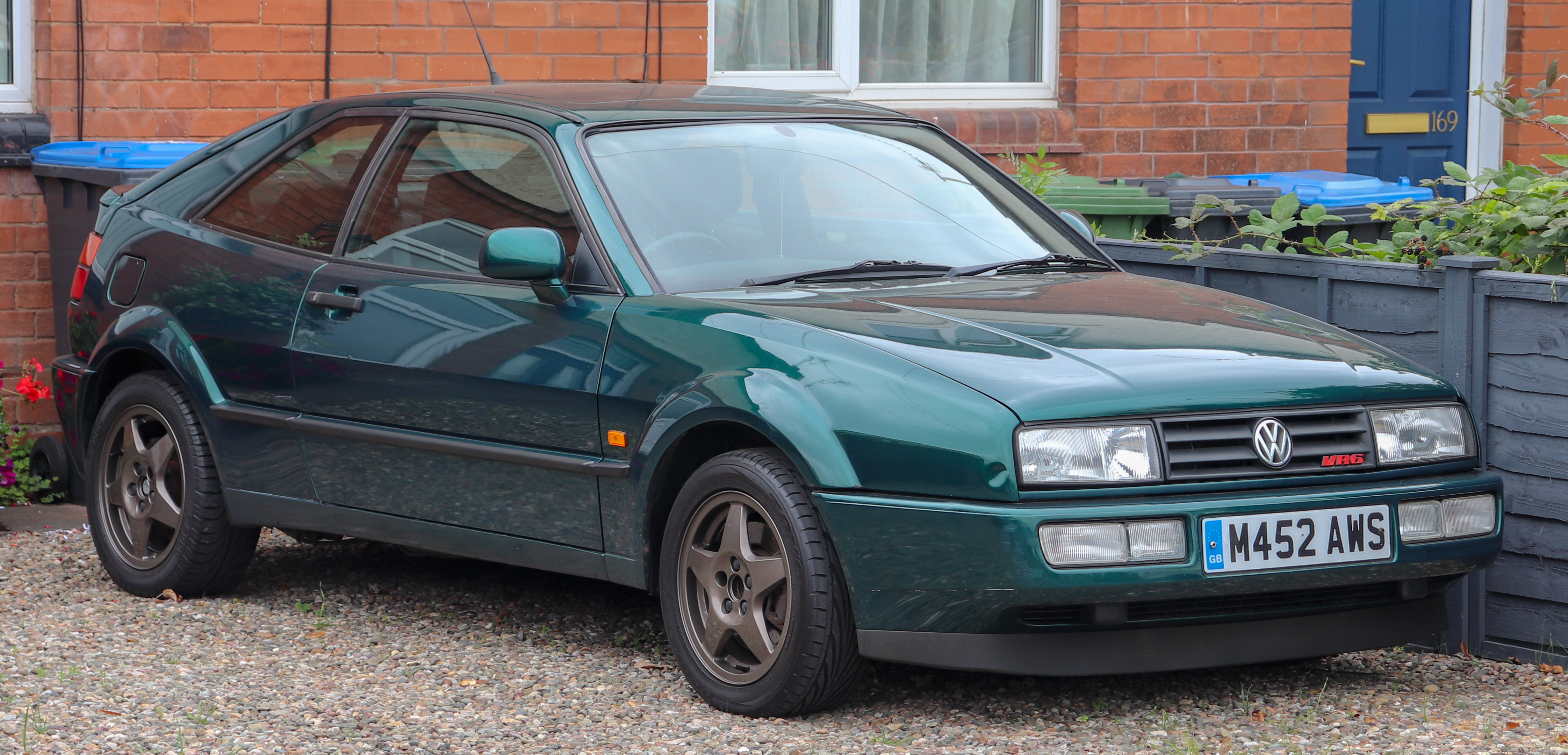 1994 Volkswagen Corrado VR6 2.9 Taken in Stratford-upon-Avon